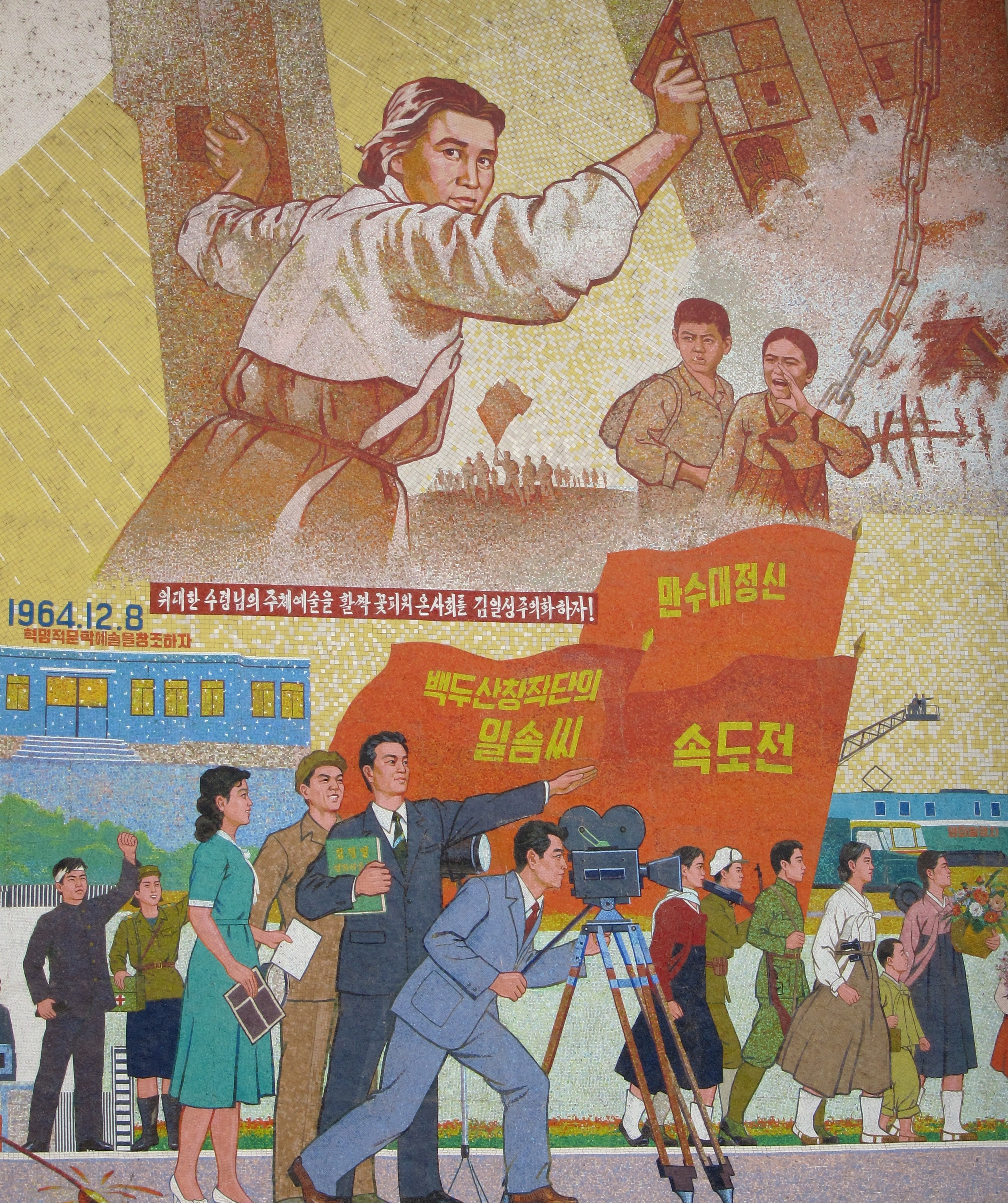 Detail of a mural at the Pyongyang Art Studios in Pyongyang, North Korea.